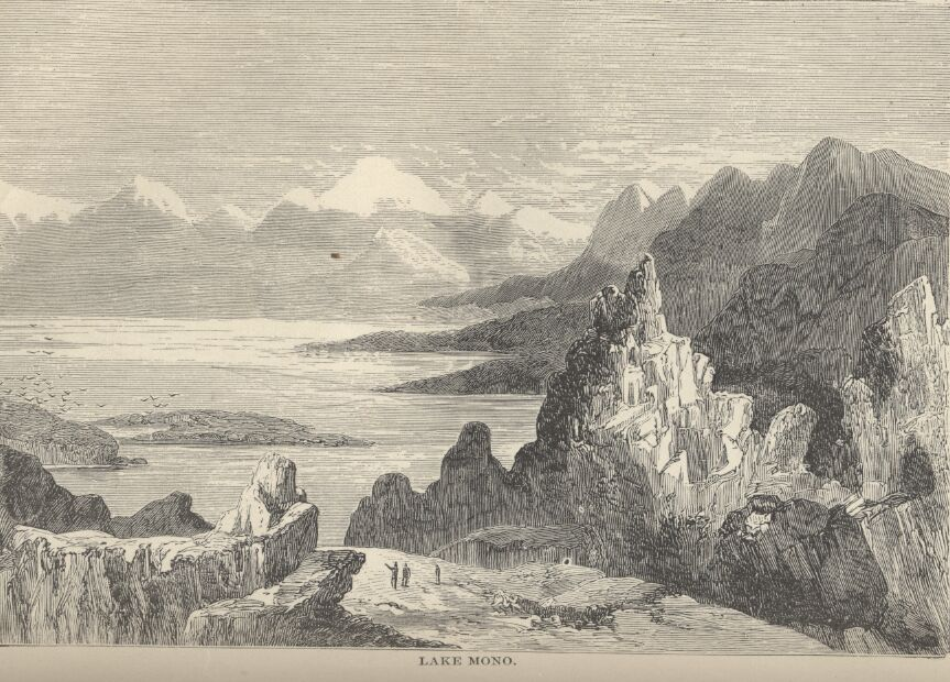 Illustrations de Roughing It, 1872.